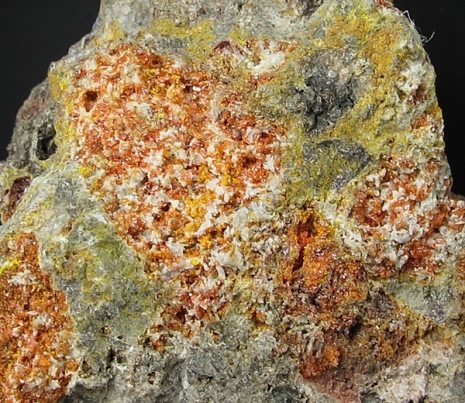 Locality: Rat Tail claim (Pack Rat claim), Wickenburg area, Belmont Mts, Maricopa Co., Arizona, USA Dimensions: 3.3 cm x 2.9 cm x 1.2 cm Hemihedrite is a very rare Pb-Zn chromate and phoenicochroite is a very rare Pb-chromate. Red phoenicochroite and orange hemihedrite microcrystals richly cover the matrix on this excellent combination example from this obscure Arizona locale. Ex. Will Henderson Collection. Tim Blackwood Collection.